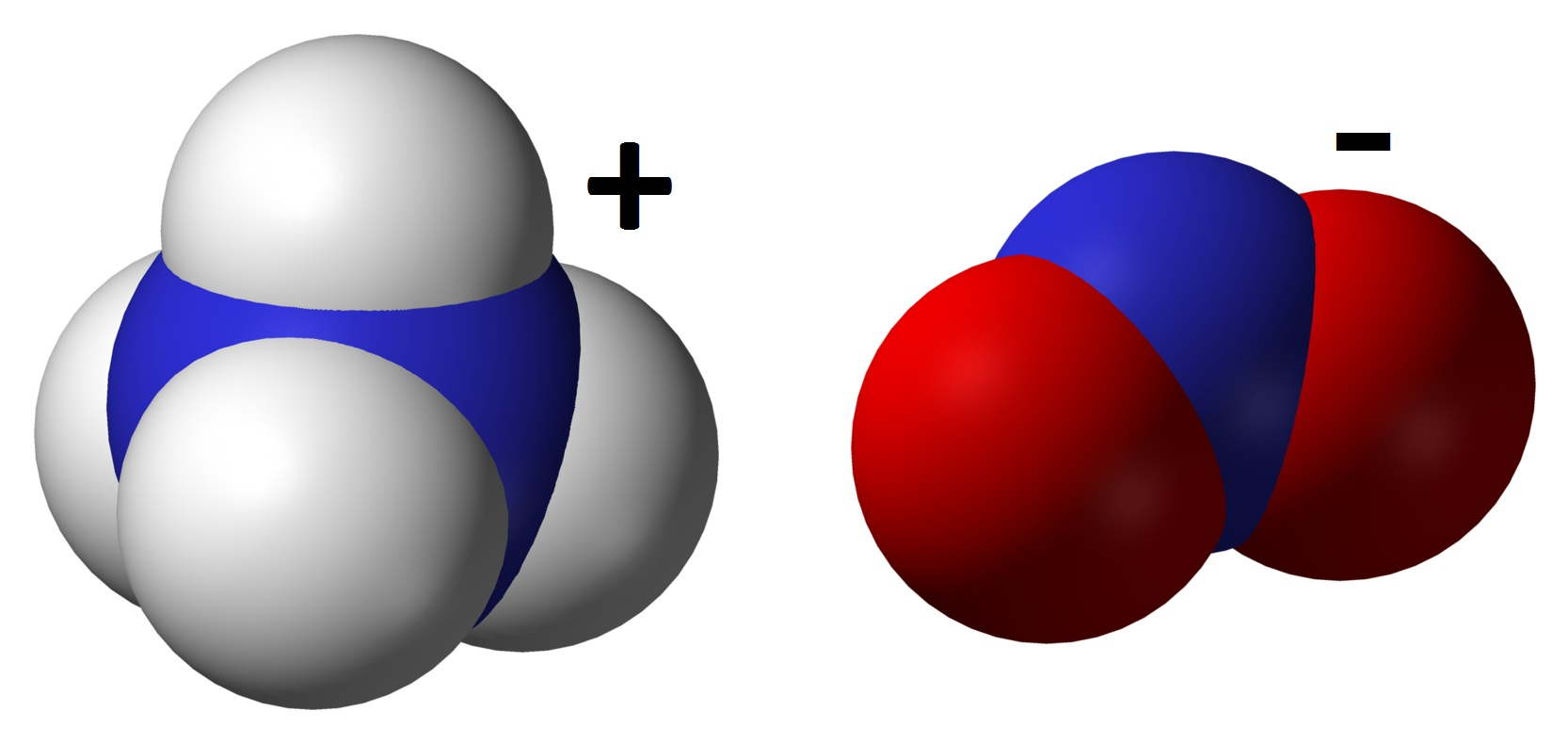 Molecular Model of Ammonium Nitrite in 3D. Colour code: Carbon, C: black Hydrogen, H: white Oxygen, O: red Nitrogen, N: blue